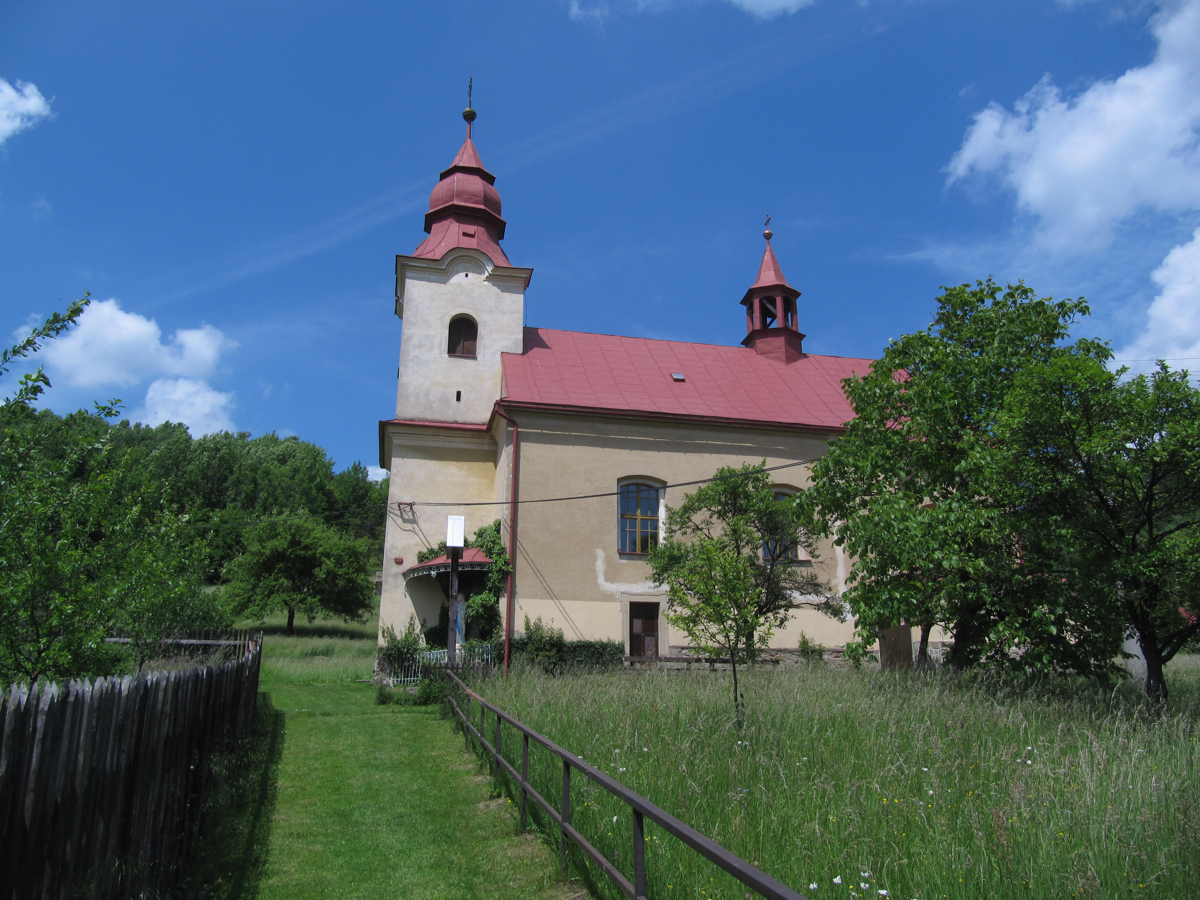 Rusava, Kroměříž District, Czech Republic.